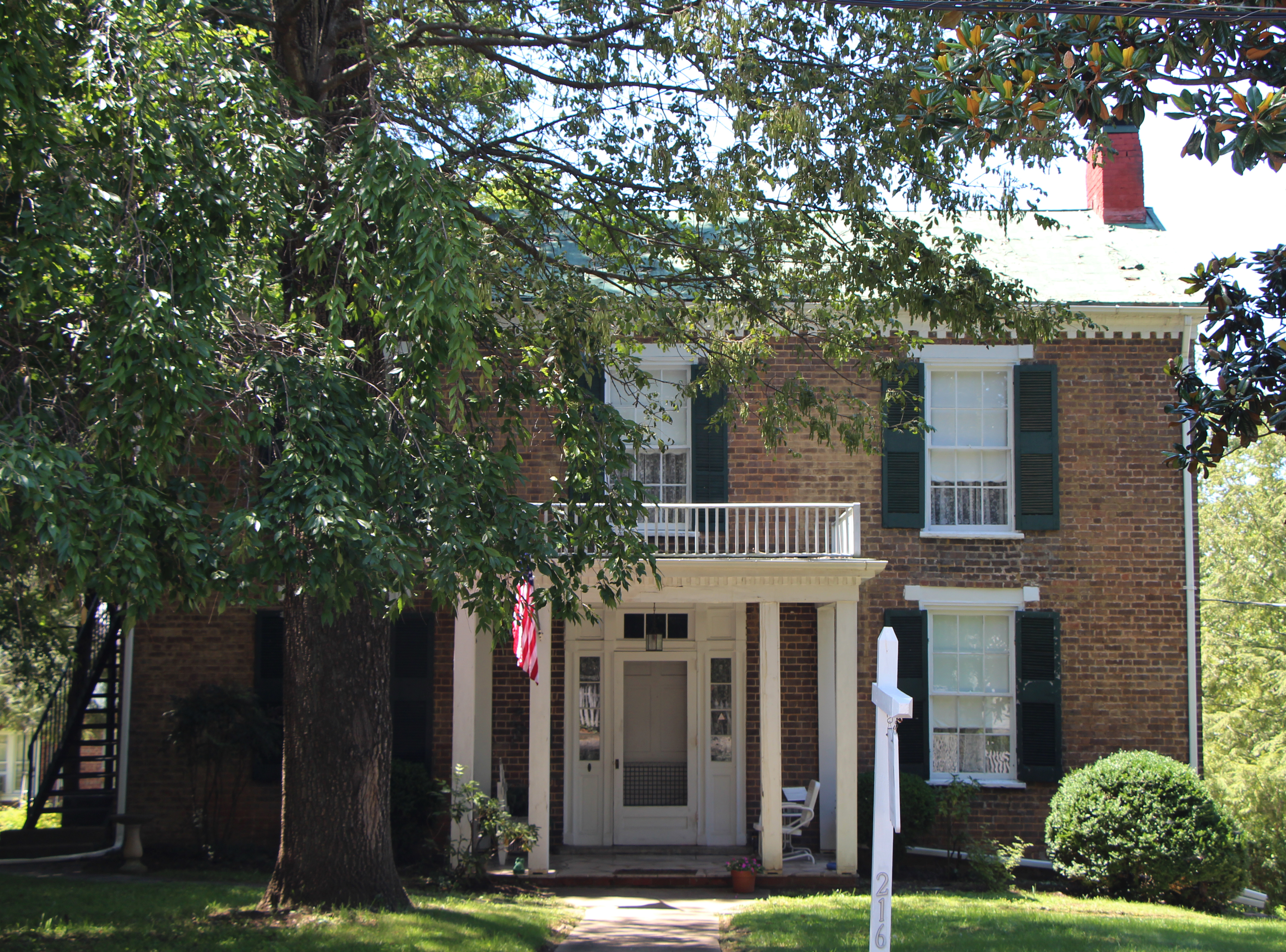 Lowry-Snapp House, Greeneville, TN